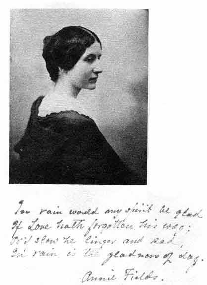 Annie Adams Fields (1834-1915)